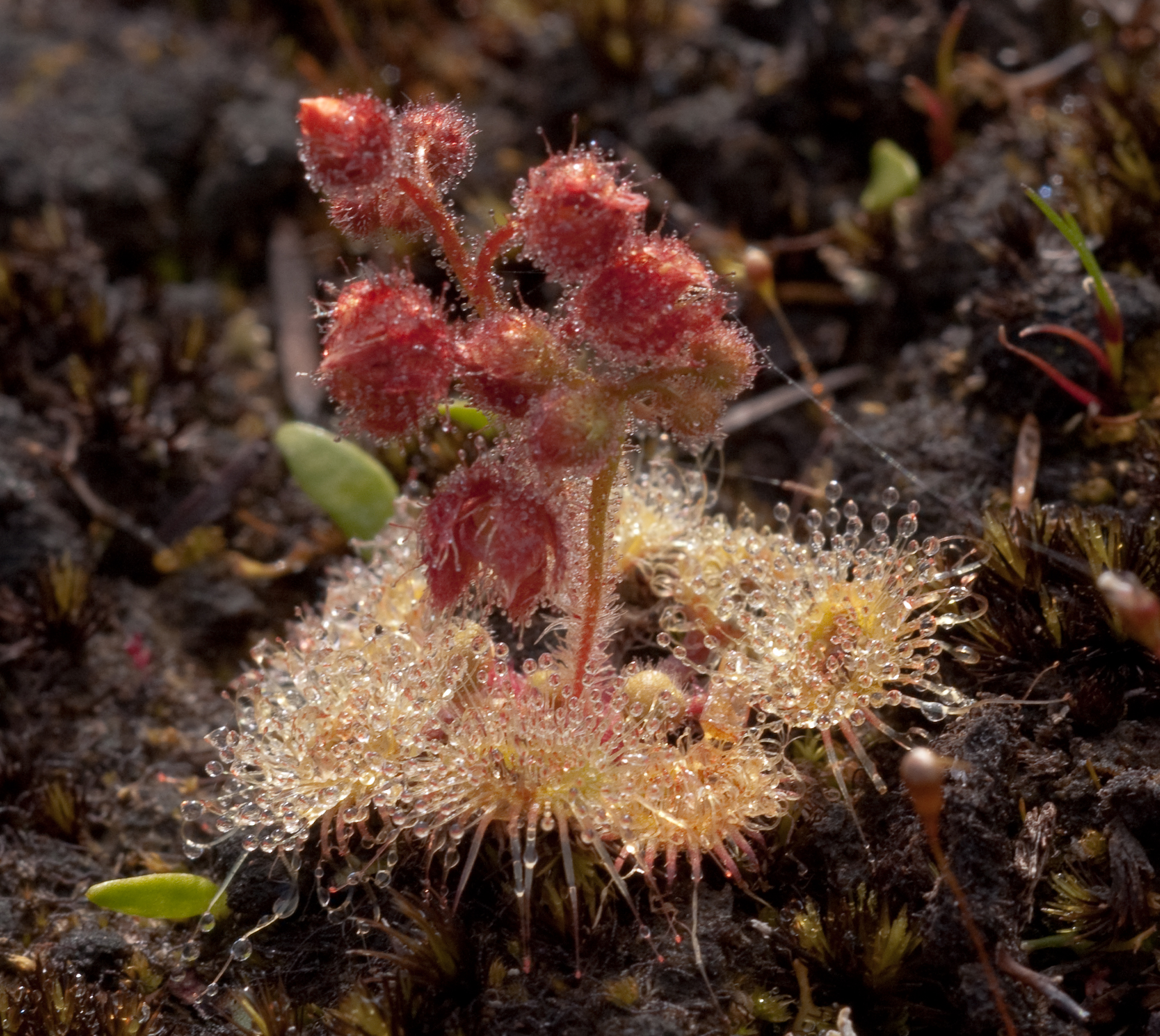 Drosera glanduligera growing on the foothills of Mt. Cameron, in northeastern Tasmania.